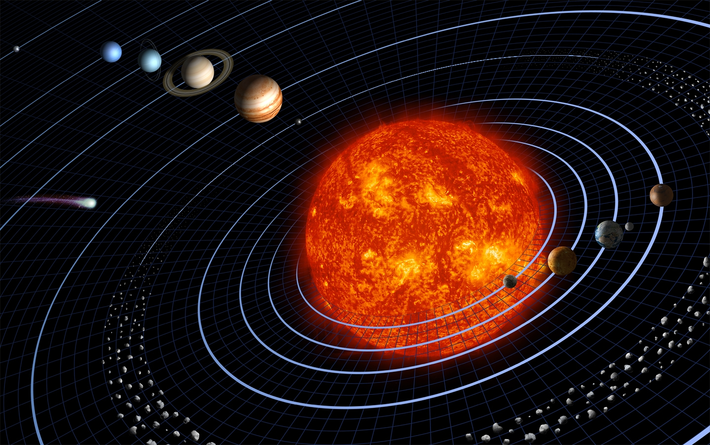 Major features of the Solar System (not to scale, from left to right): Pluto, Neptune, Uranus, Saturn, a comet, Jupiter, Ceres which lies in the asteroid belt, the Sun, Mercury, Venus, Earth & Moon, and Mars.